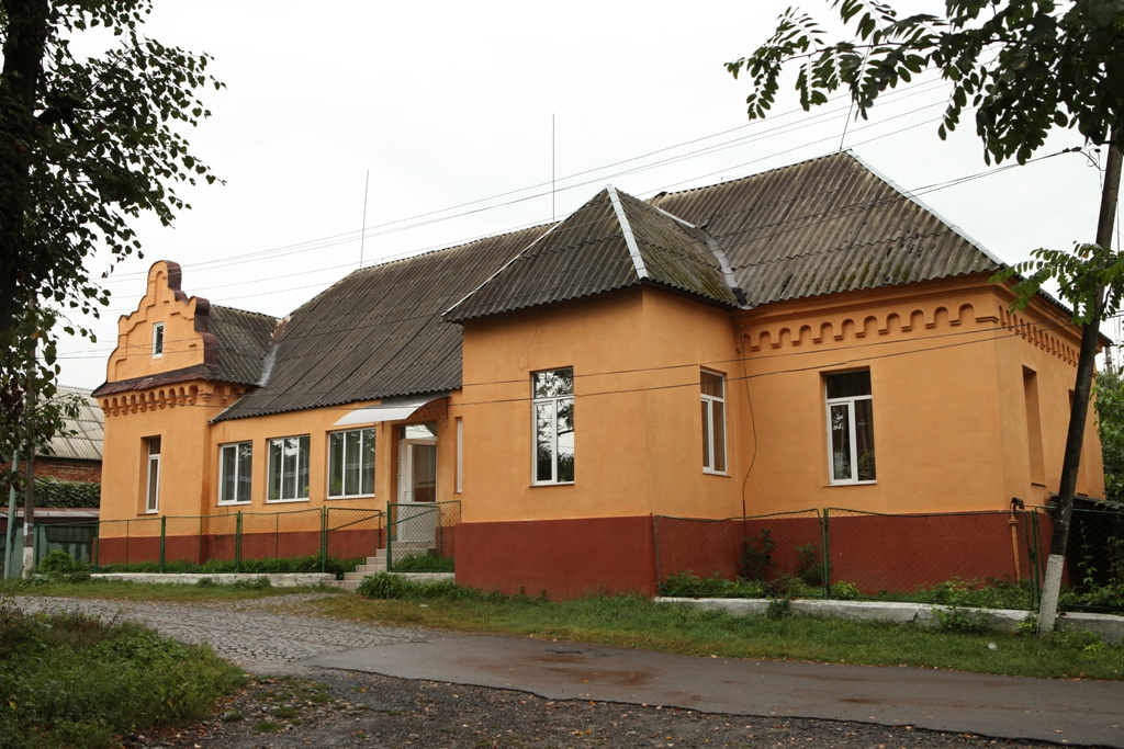 Быший оффис главного полицейского в Иршаве